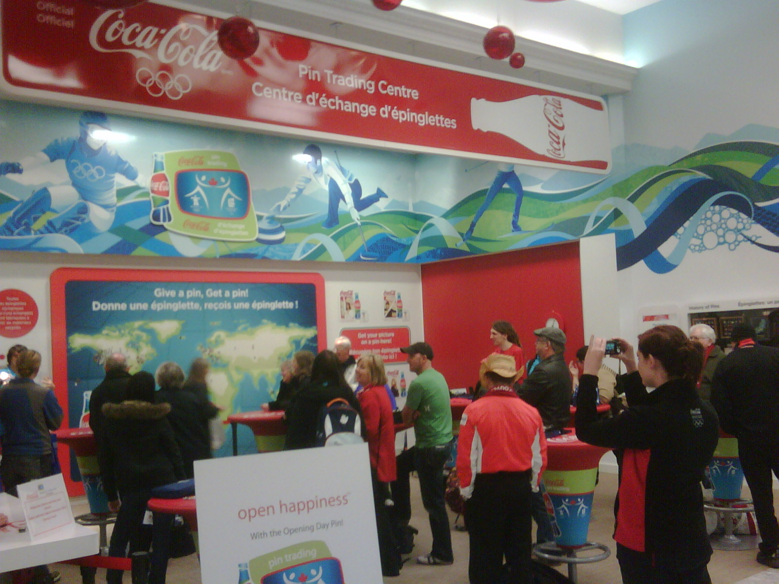 The Coca Cola Olympic Pin Trading Centre at the HBC store is packed with crazy pin traders